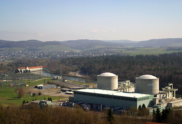 The Beznau Nuclear Power Plant with the hydroelectric power plant in the background.